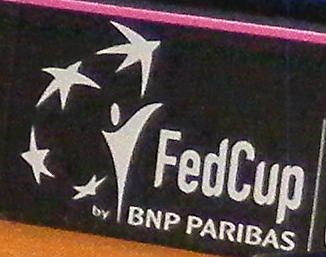 team presentation on FED Cup 2013 Germany vs Serbia